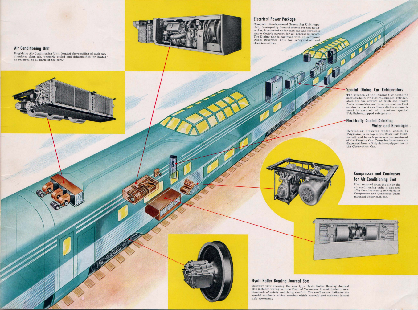 Artist's conception of technical features from a promotional brochure distributed by General Motors describing the Train of Tomorrow, a demonstrator built by GM and Pullman-Standard.